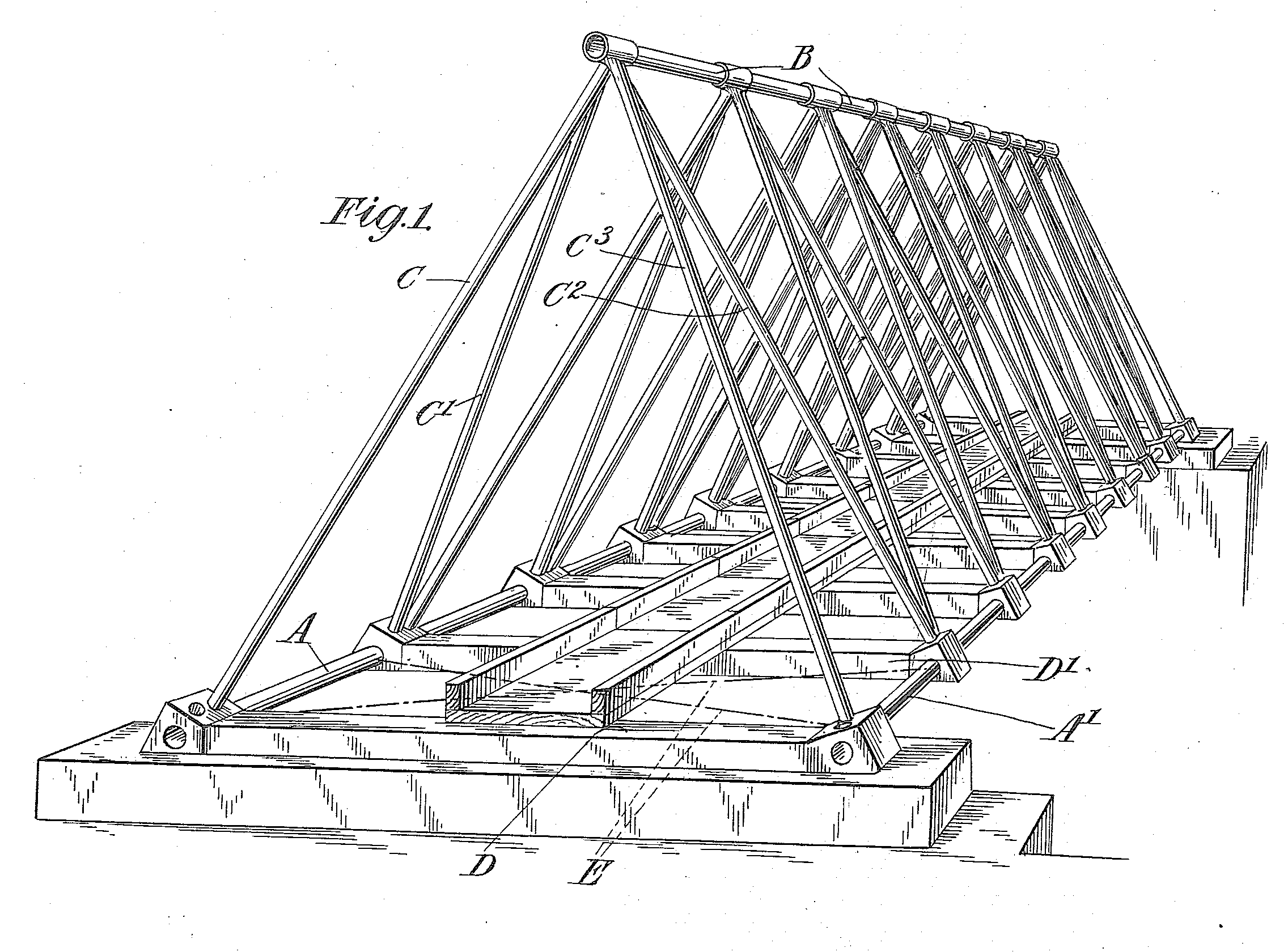 Inglis footbridge from its 1916 patent